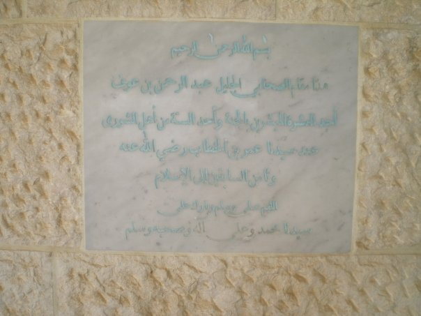 The picture was taken in 2009 of a marble plaque with information about the place